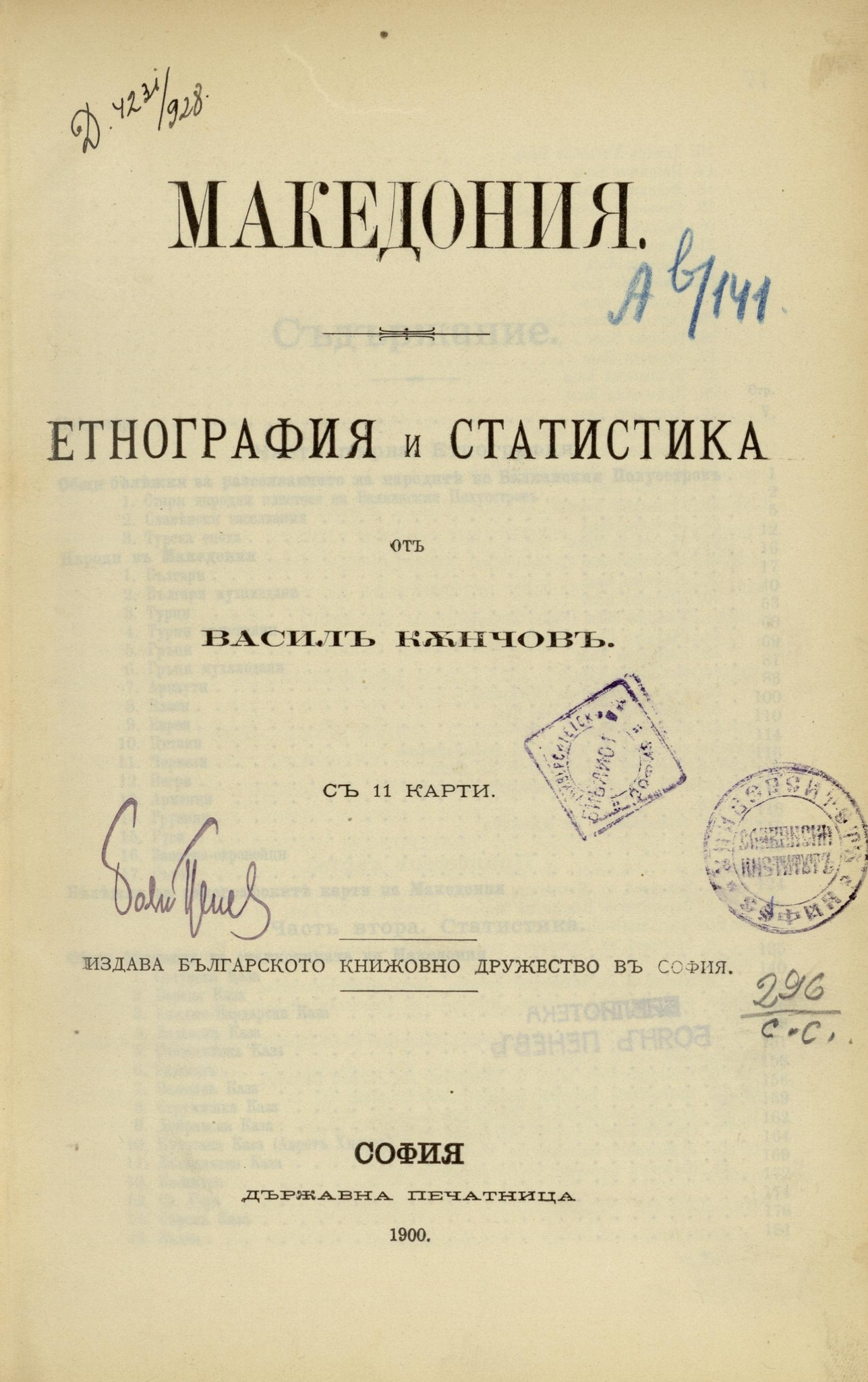 Macedonia. Ethnography and Statistics